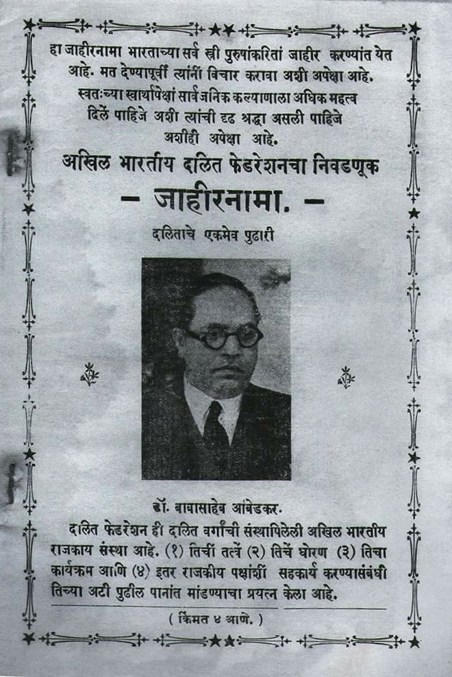 A photograph of the election manifesto of the All India Scheduled Caste Federation, the party founded by Dr Ambedkar. In 1946, Dr Ambedkar founded a political party to campaign for the rights of the Dalit community.